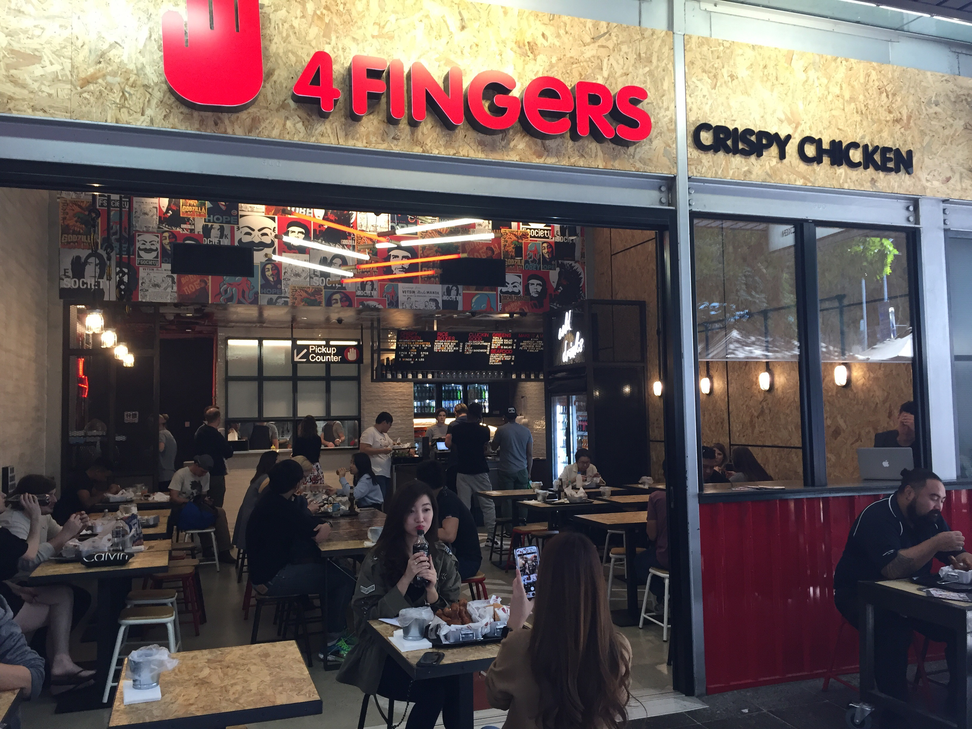 A 4Fingers restaurant in Brisbane, Australia